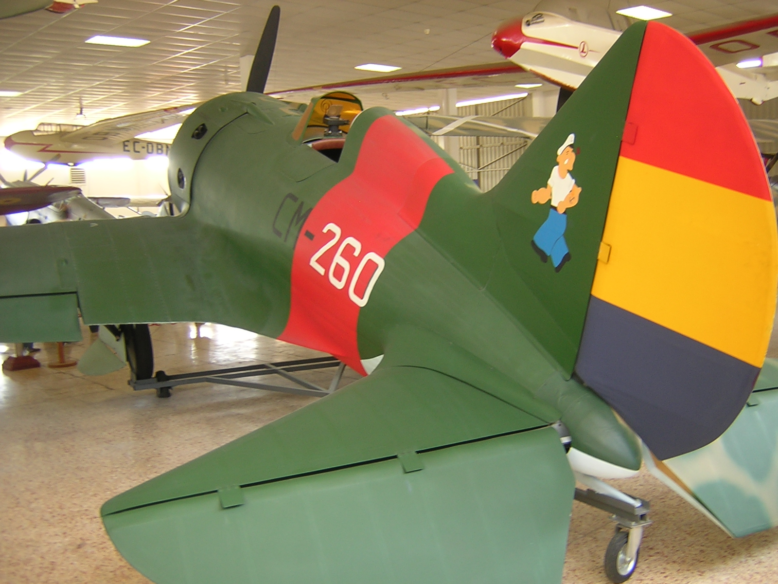 Defending Madrid during the Civil War, Spanish Republican insignia (and Popeye). Polikarpov I-16. Museo de Cuatrovientos, Madrid, España